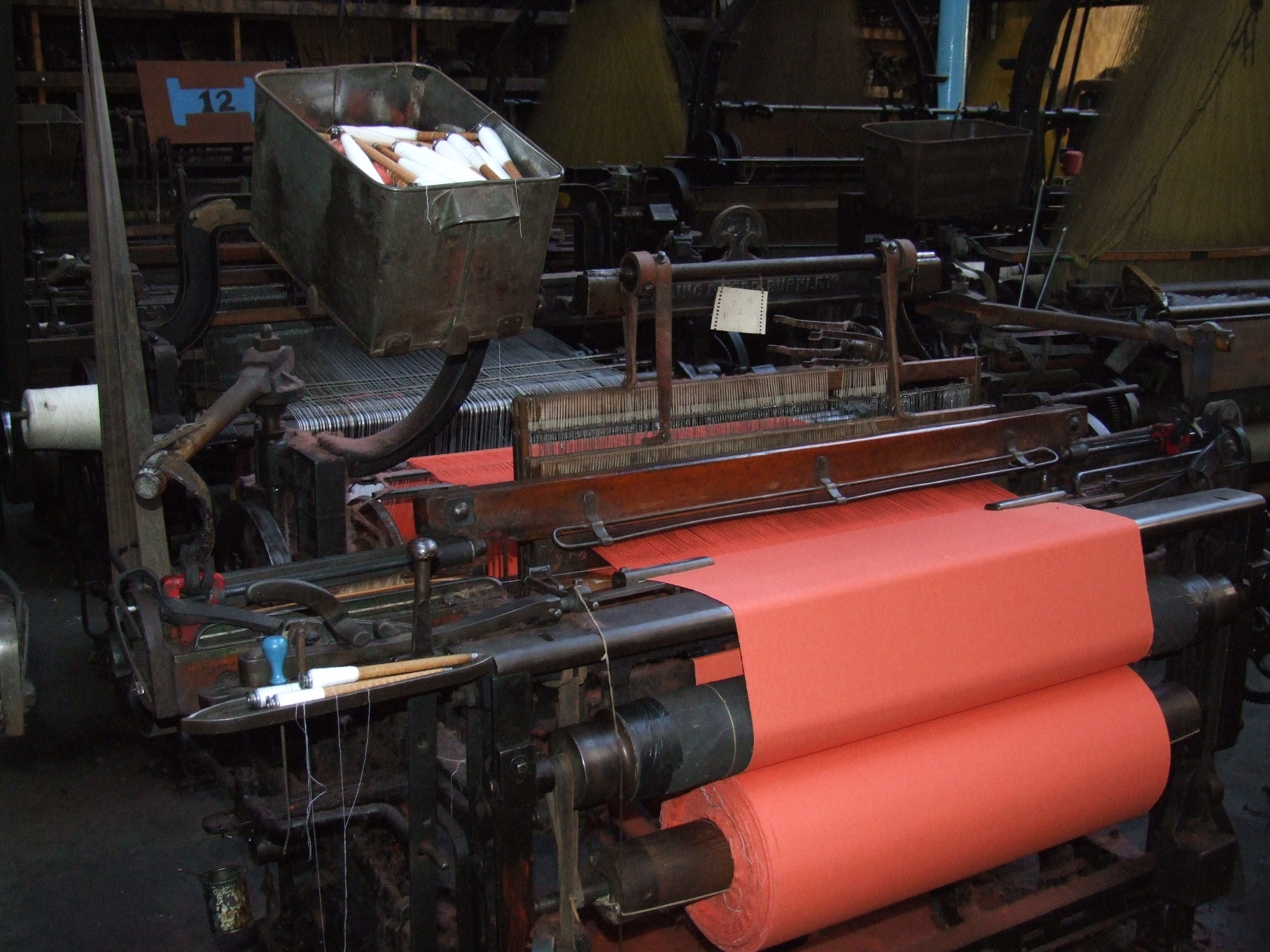 Masson Mills built in 1783 is home to a working textile mills. There is a small weaving shed with working looms some dating back to before 1867. A Lancashire loom bought second hand in 1867. It was manufactured by Harling & Todd of Burnley.